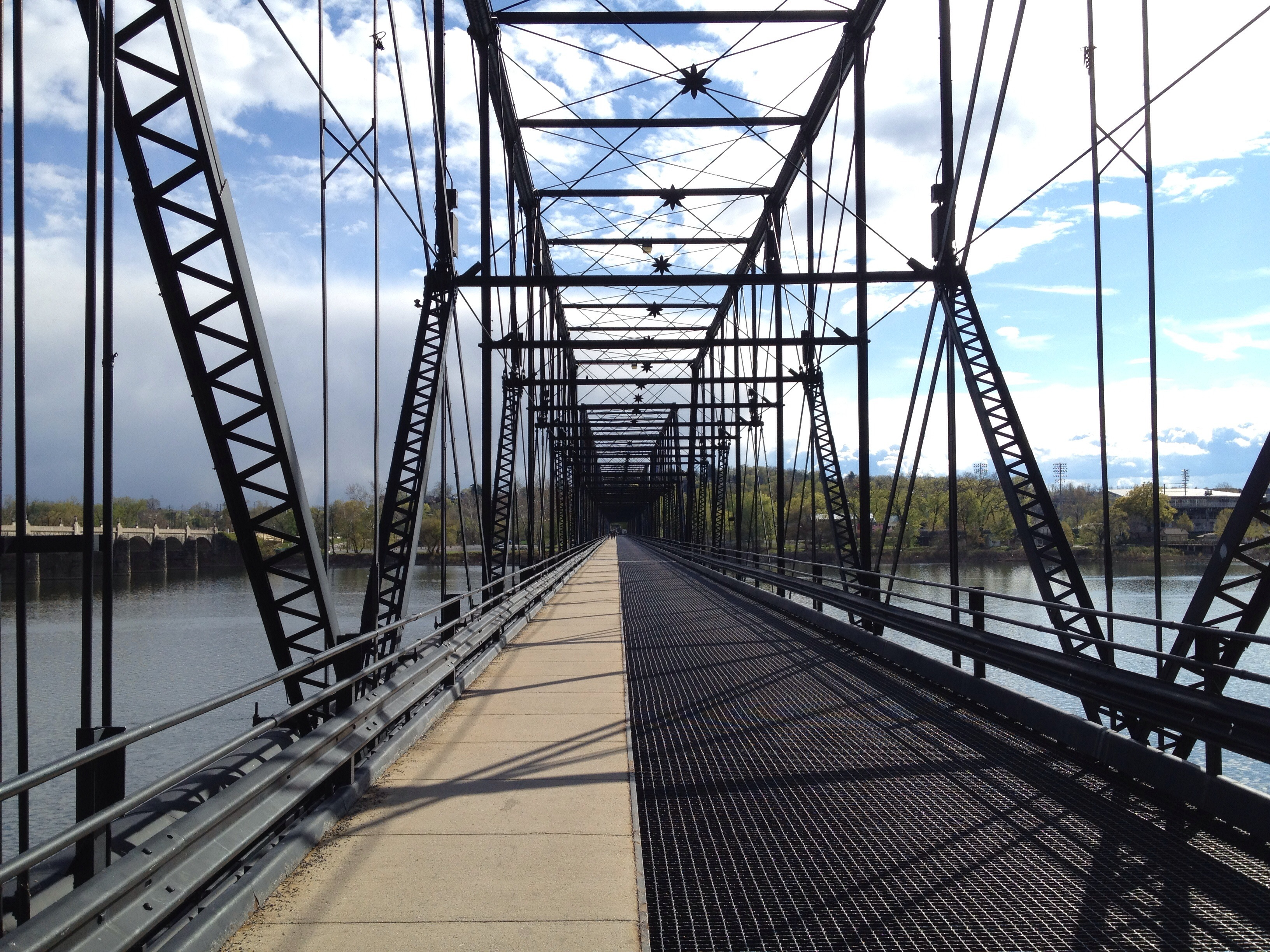 quick jaunt to City Island